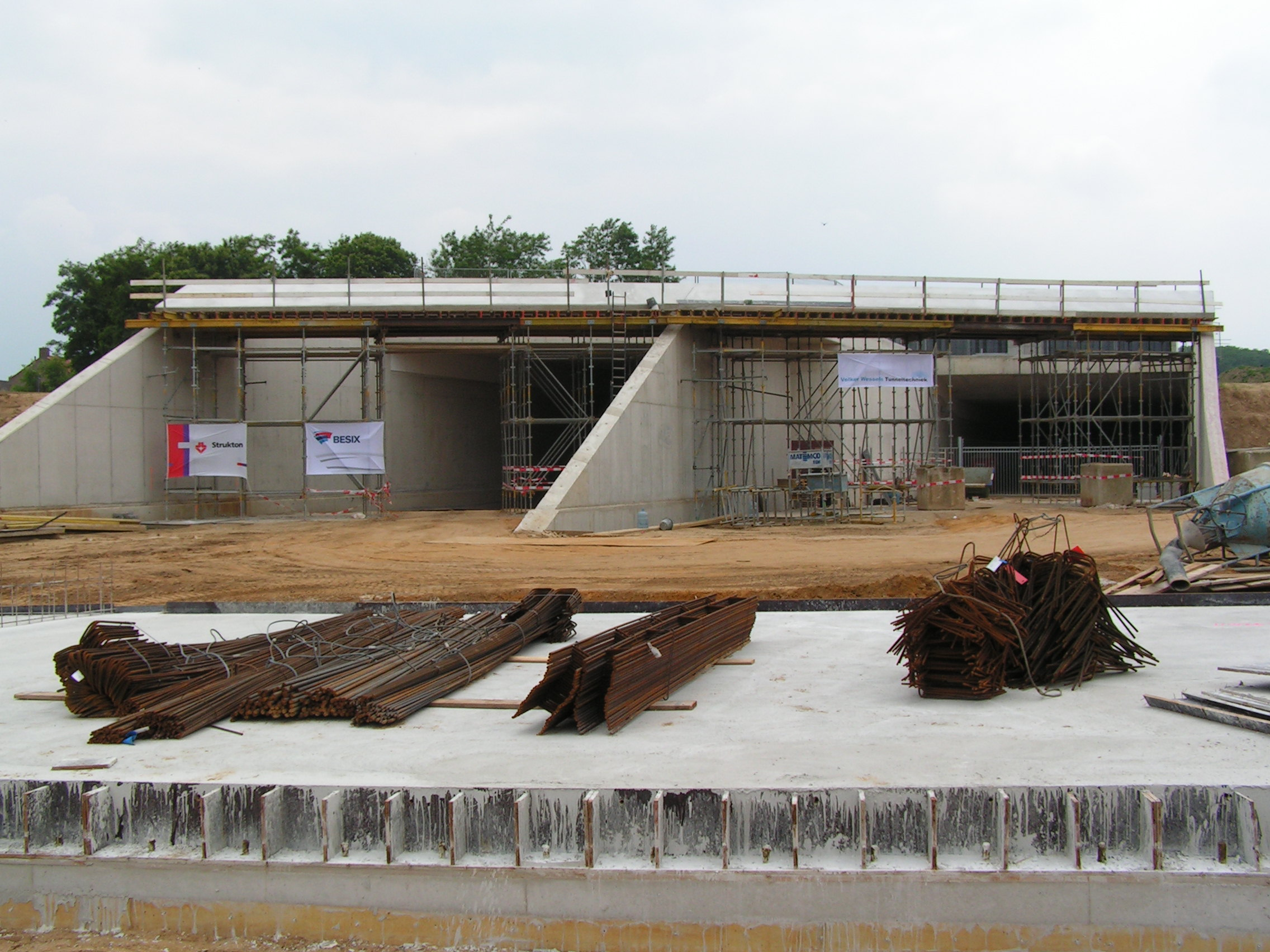 Northern entrance of the Roertunnel which is part of the A73 motorway.